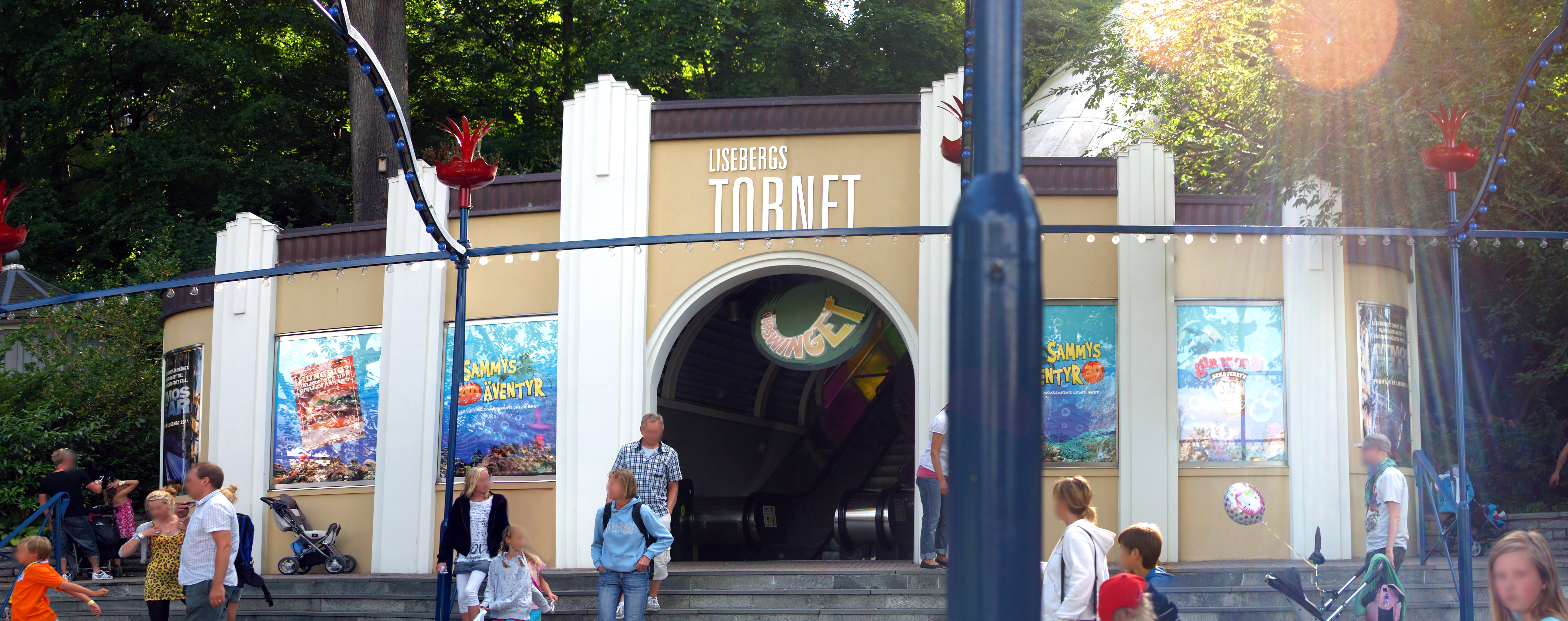 Entrance to the Liseberg tower building.